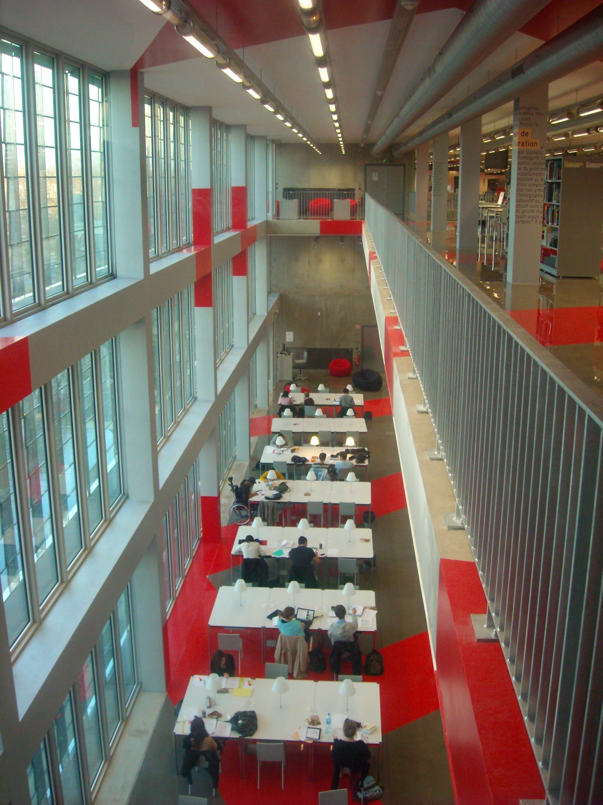 Mediateca de Strasbourg, interior